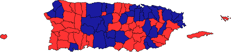 Puerto Rican general election, 1976 map.